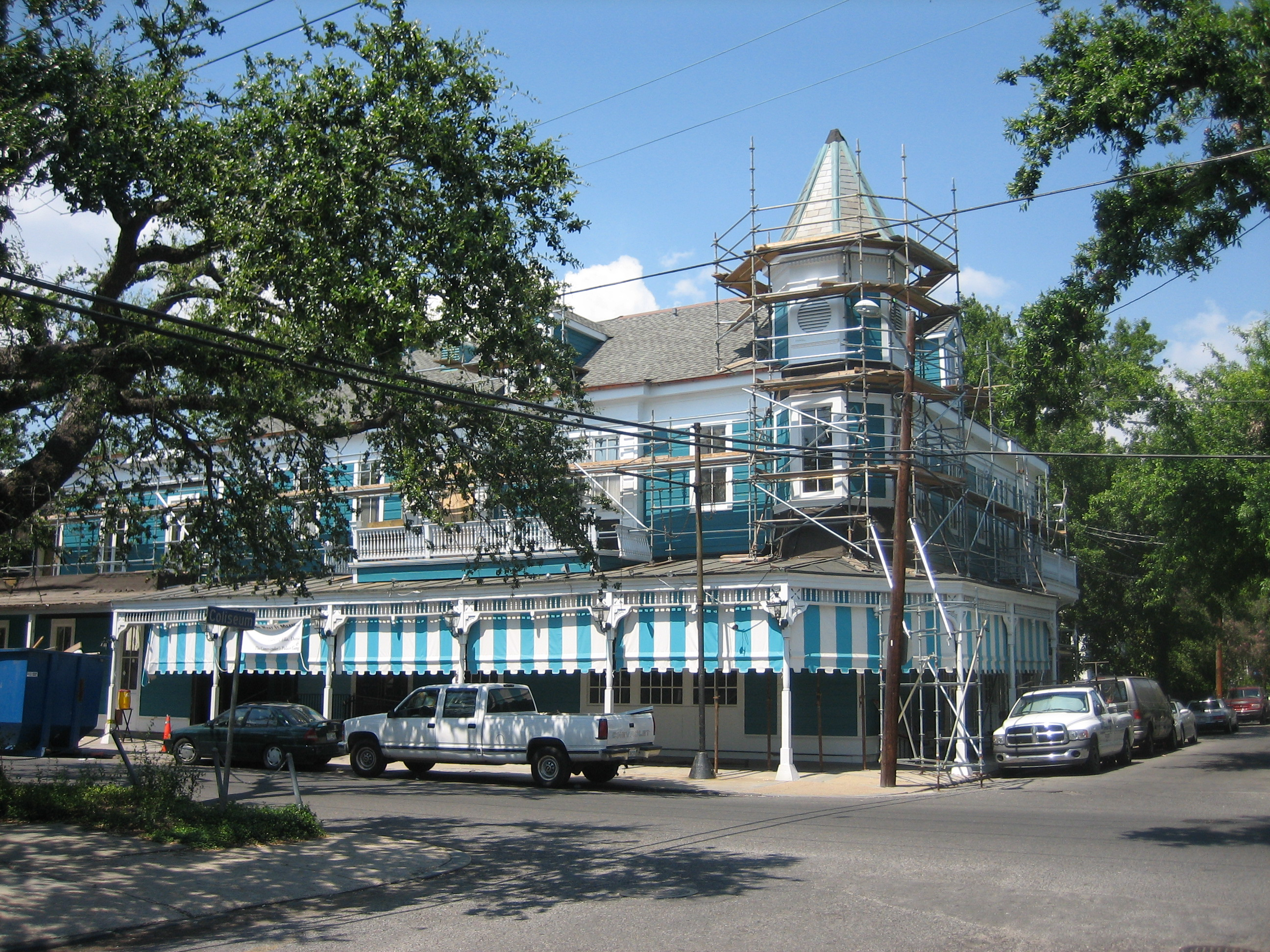 New Orleans after Hurricane Katrina: the well known "Commander's Palace" restaurant was on land above the great flood, but was severely damaged by wind, and is requiring months of repair work.